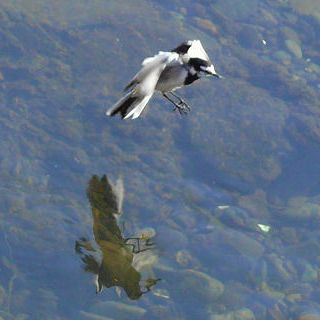 flying to catch a fly.